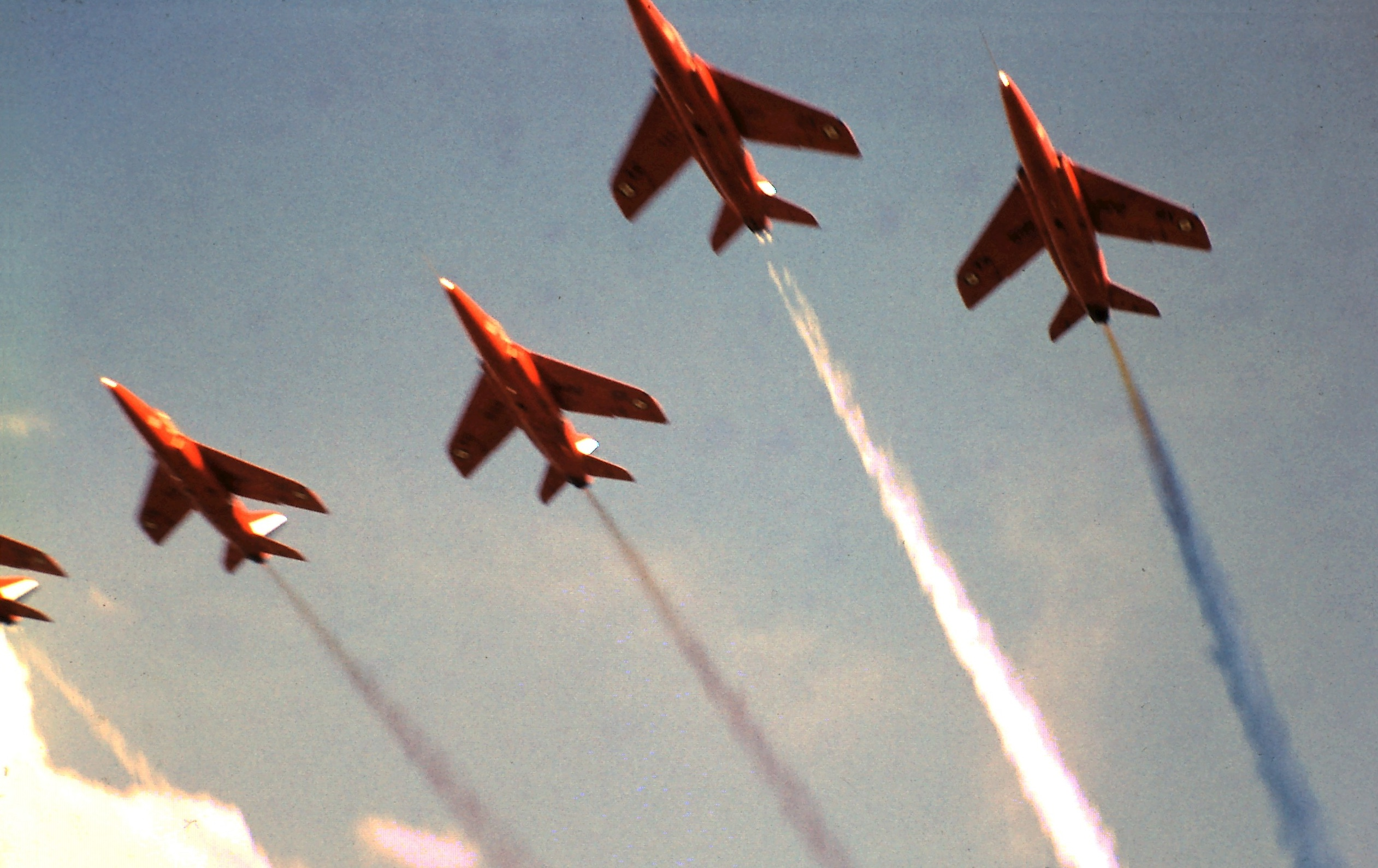 The squadron Red Arrows during the Air show of the Royal Air Force in May 1967 on the military airbase Gütersloh